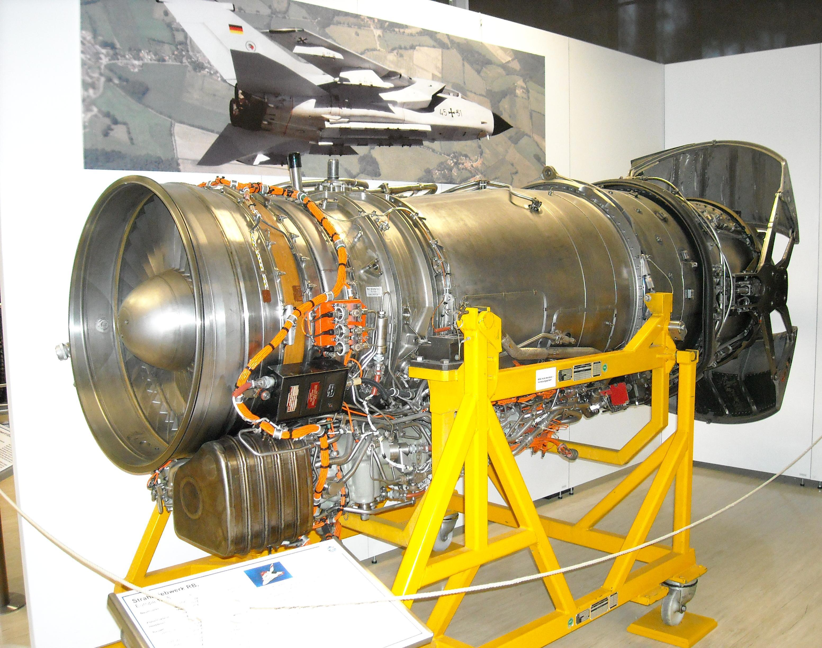 The Turbo-Union RB199 low-bypass turbofan engine on display at the Air Force Museum of the Bundeswehr (Luftwaffenmuseum der Bundeswehr) at Berlin-Gatow airfield.